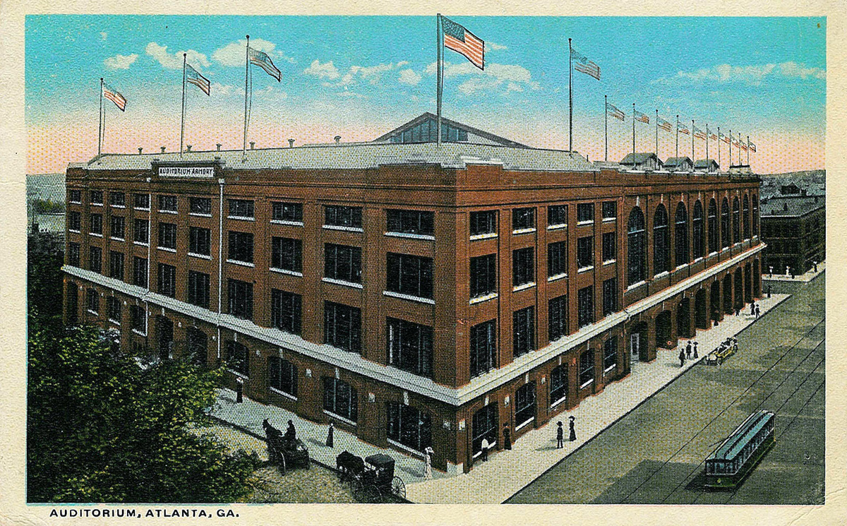 Atlanta Auditorium 1910s